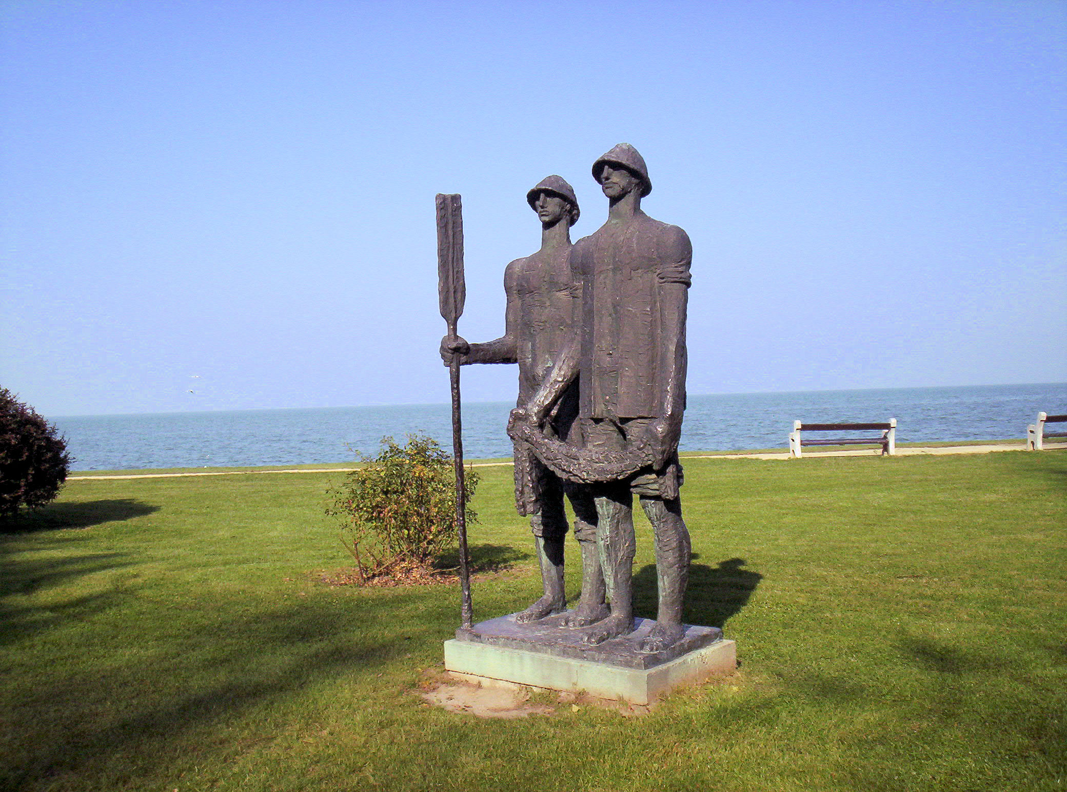 Fishermen – statue in Siófok